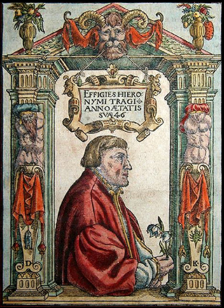 Portrait of Hieronymus Bock